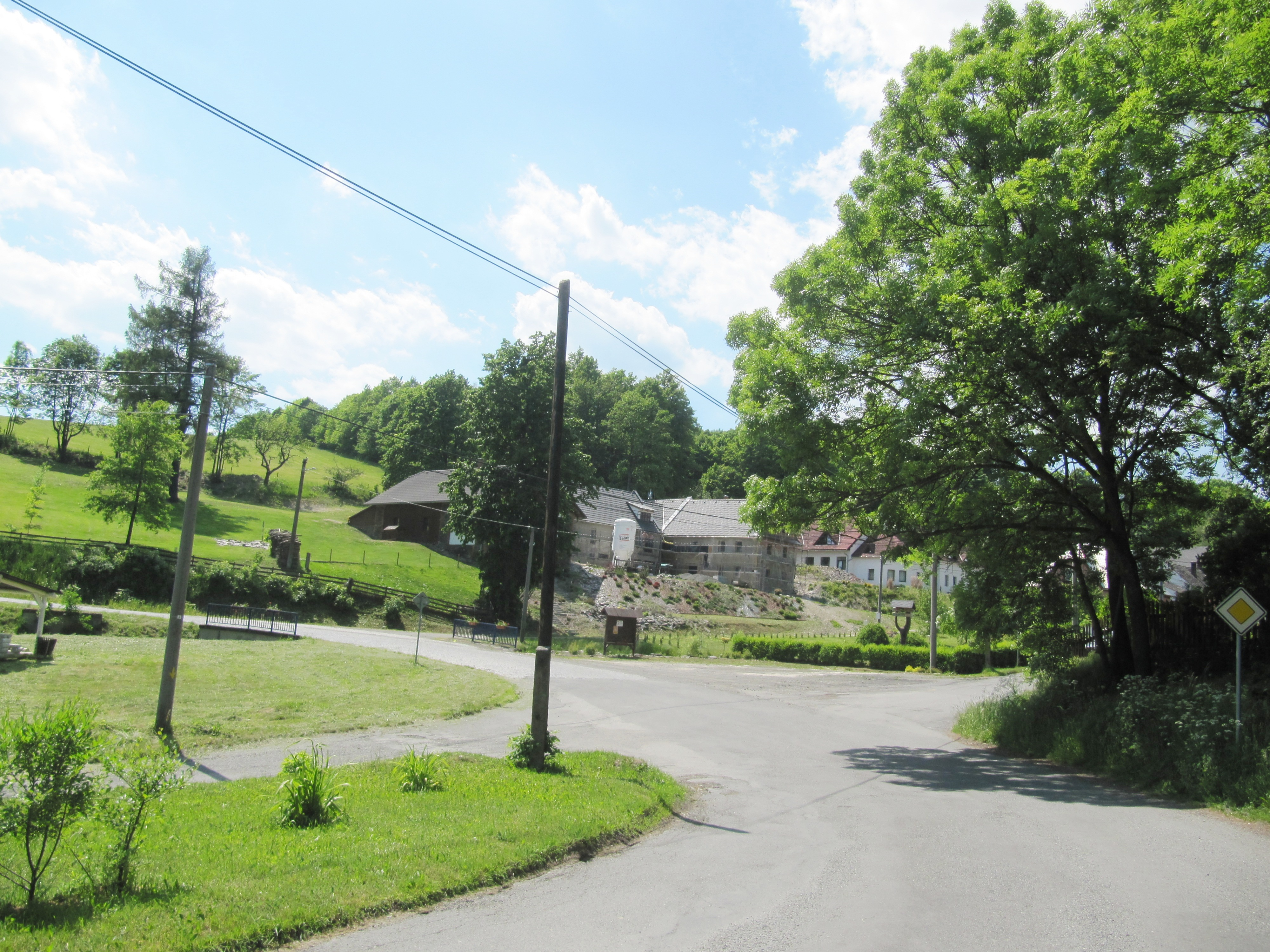 Budišov nad Budišovkou, Opava District, Czech Republic. part Podlesí.